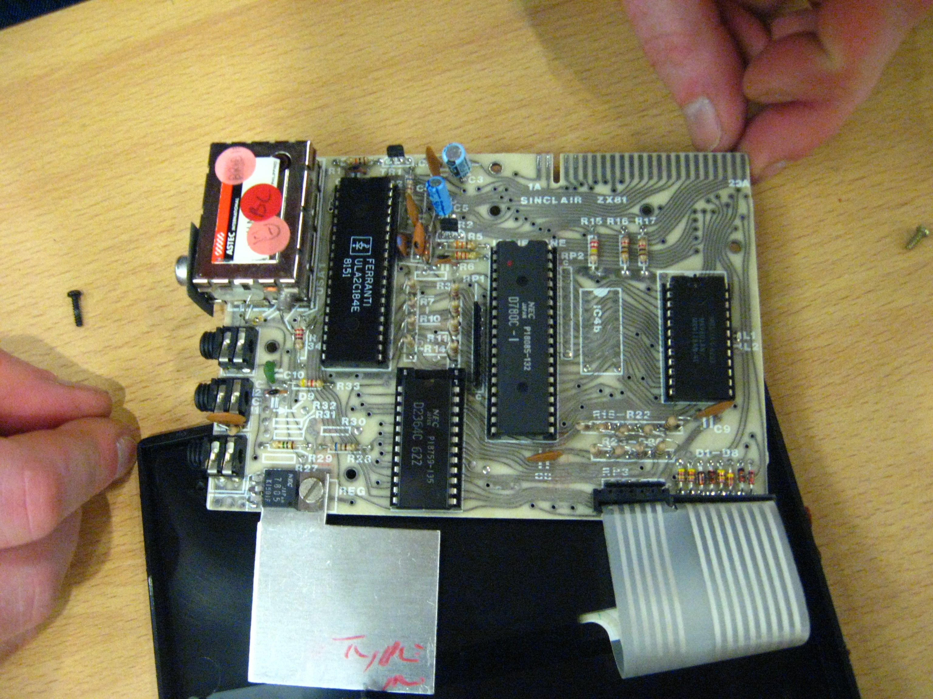 Sinclair ZX81 PCB Photo taken at Retro Gatering, Stockholm, 27 Sep 2008.